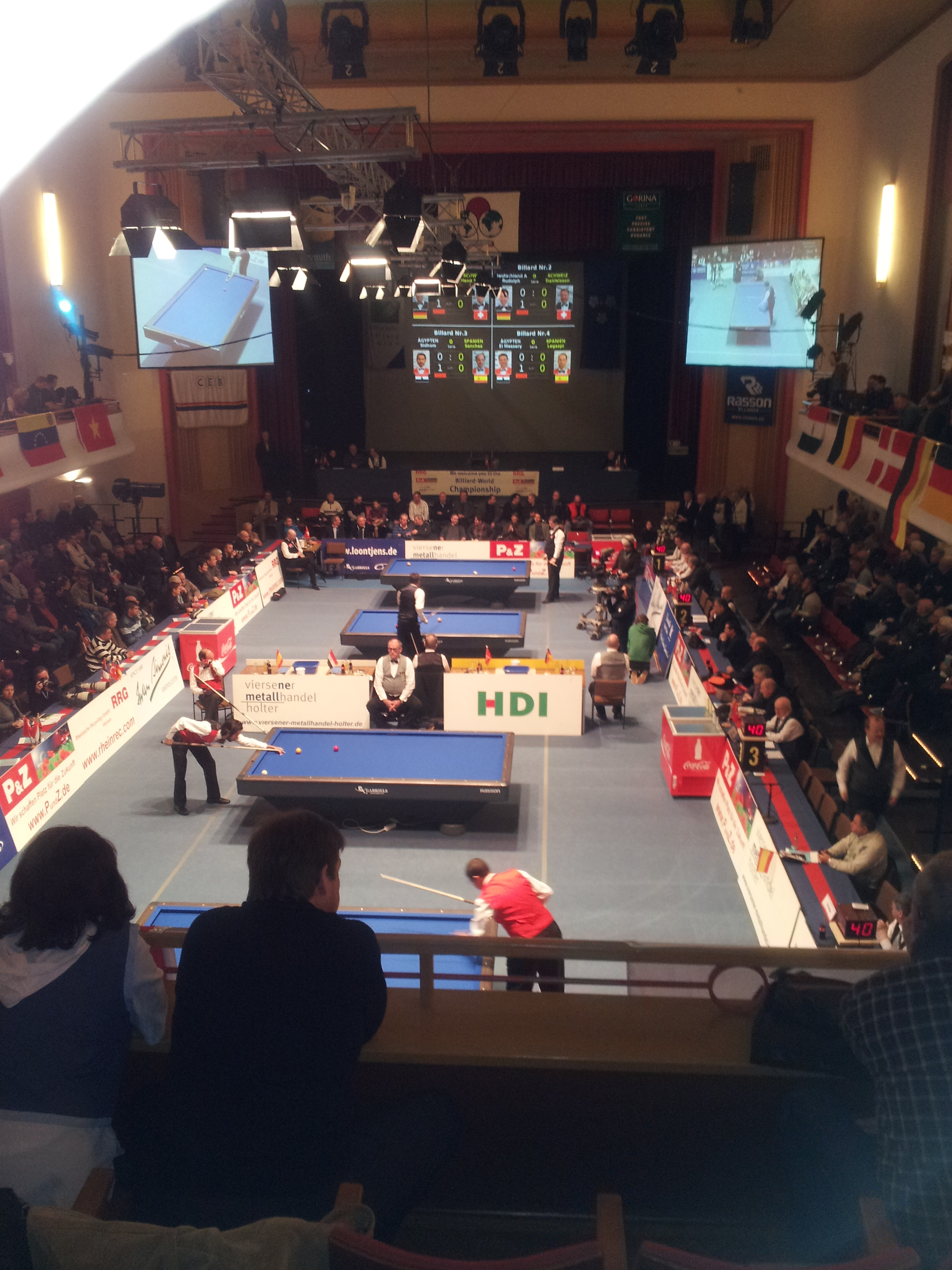 3-cushion World Championships for National Teams in Viersen, Germany on 23 February 2013